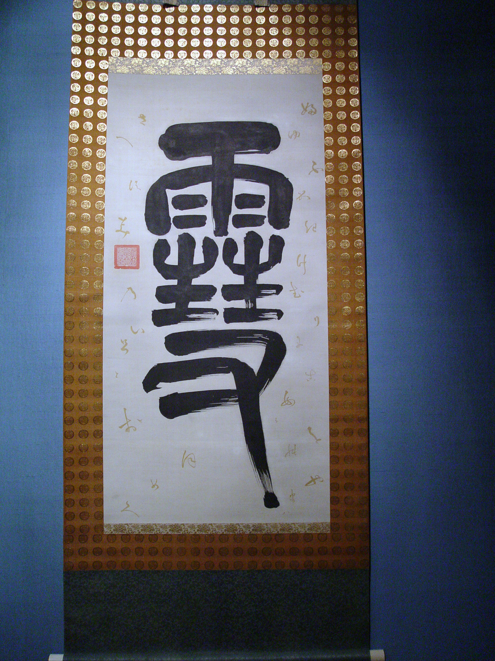 Lord Tokugawa Nariaki Japan, 1800-1860 Snow, Moon, Flower Calligraphy, circa 1840-1860 Set of three hanging scrolls; ink and gold pigment on paper Gift of 2008 Japanese Art Acquisitions Committee (M.2008.11.1-3) Wikipedia Loves Art at the Los Angeles County Museum of Art This photo of item # M.2008.11.3 at the Los Angeles County Museum of Art was contributed under the team name "Team_A" as part of the Wikipedia Loves Art project in February 2009. Los Angeles County Museum of Art The original photograph on Flickr was taken by howcheng—please add a comment to the original Flickr page whenever a use has been made on Wikipedia or another project. Project galleries on Flickr: this institution, this team Lord Tokugawa Nariaki Japan, 1800-1860 Snow, Moon, Flower Calligraphy, circa 1840-1860 Set of three hanging scrolls; ink and gold pigment on paper Gift of 2008 Japanese Art Acquisitions Committee (M.2008.11.1-3) Wikipedia Loves Art at the Los Angeles County Museum of Art This photo of item # M.2008.11.3 at the Los Angeles County Museum of Art was contributed under the team name "Team_A" as part of the Wikipedia Loves Art project in February 2009. Los Angeles County Museum of Art The original photograph on Flickr was taken by howcheng—please add a comment to the original Flickr page whenever a use has been made on Wikipedia or another project. Project galleries on Flickr: this institution, this team